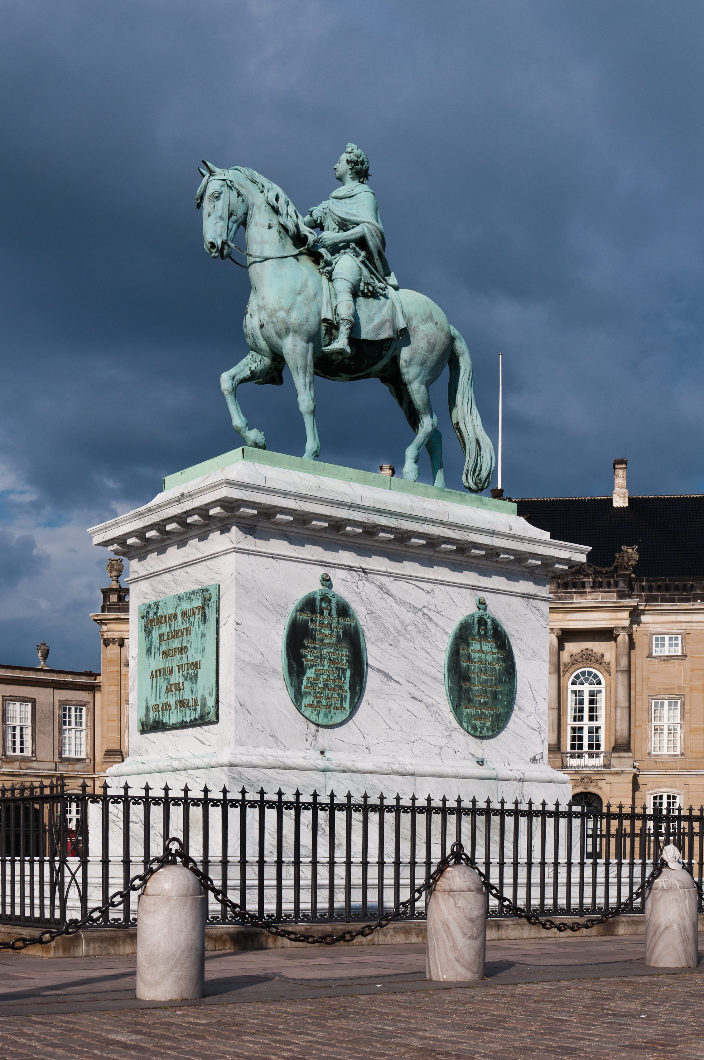 Frederik V statue in Amalienborg Palace in Copenhagen.